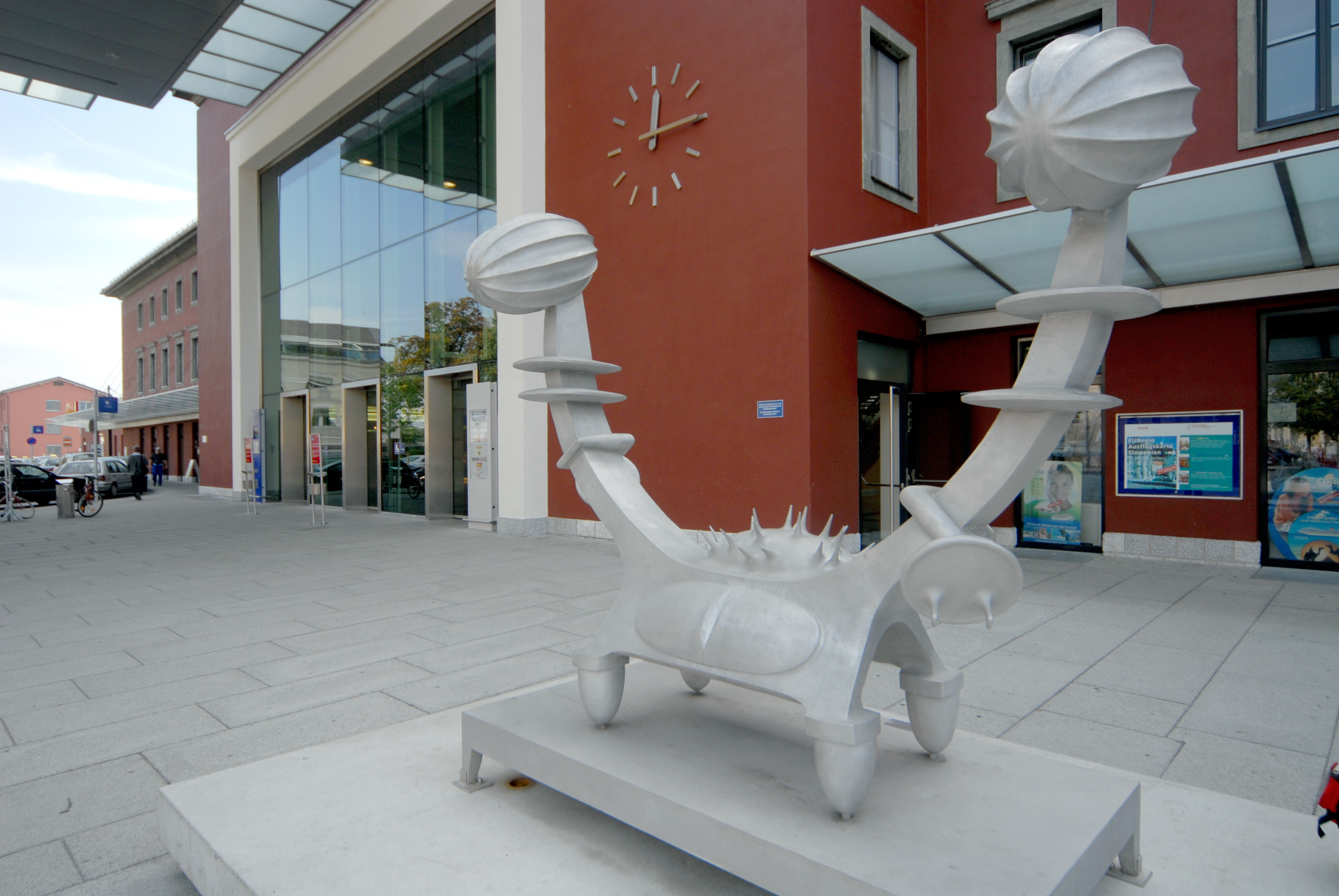 Cast aluminium sculpture “One body, two souls”, created by Bruno Gironcoli in 2001, posted in front of the station building on Walther von der Vogelweide Platz, 7th district «Viktringer Vorstadt», Klagenfurt, Carinthia, Austria, EU